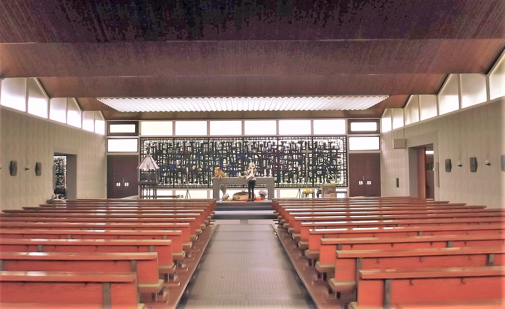 Interior of the roman catholic Maria Trost church in Dillingen, Saarland, Germany